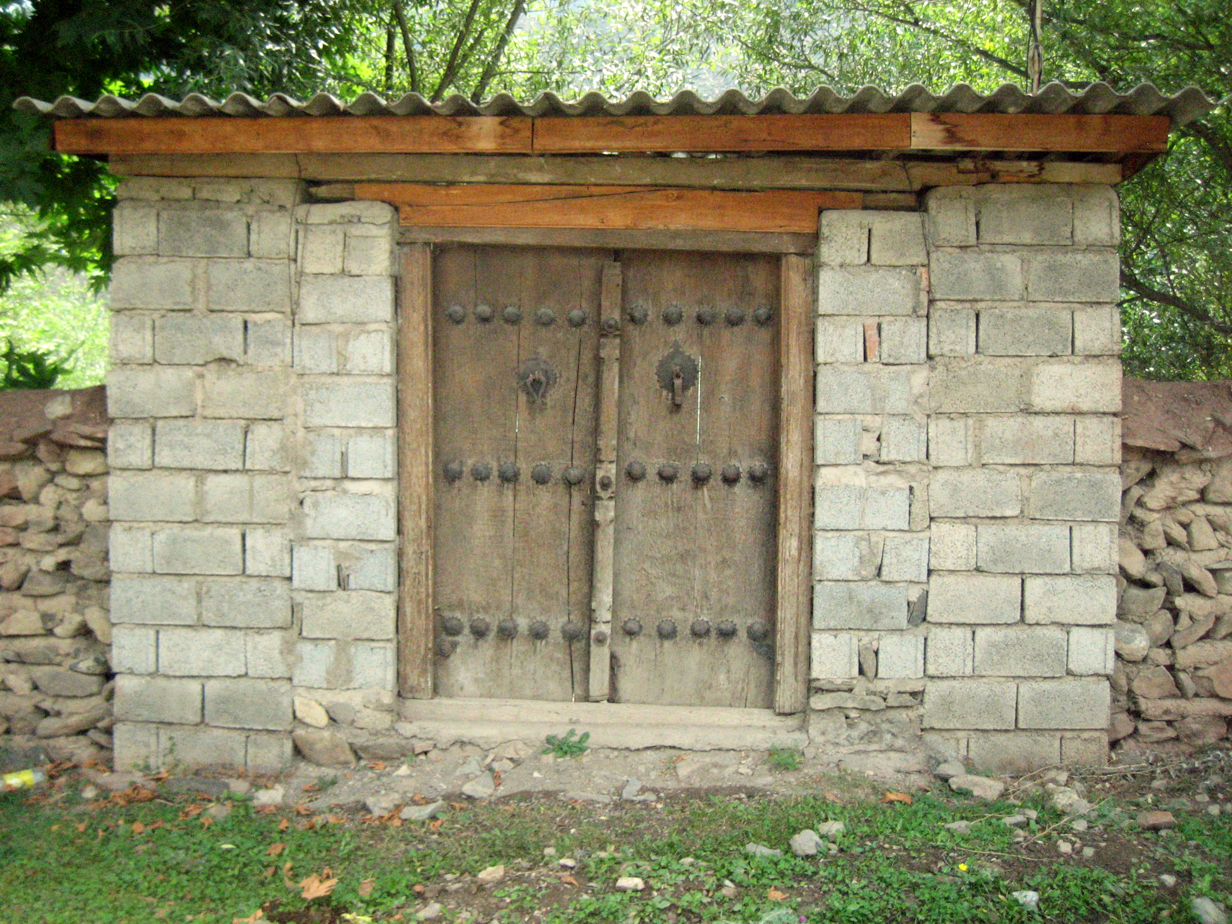 An old door of an old house in Namarestagh, Iran.